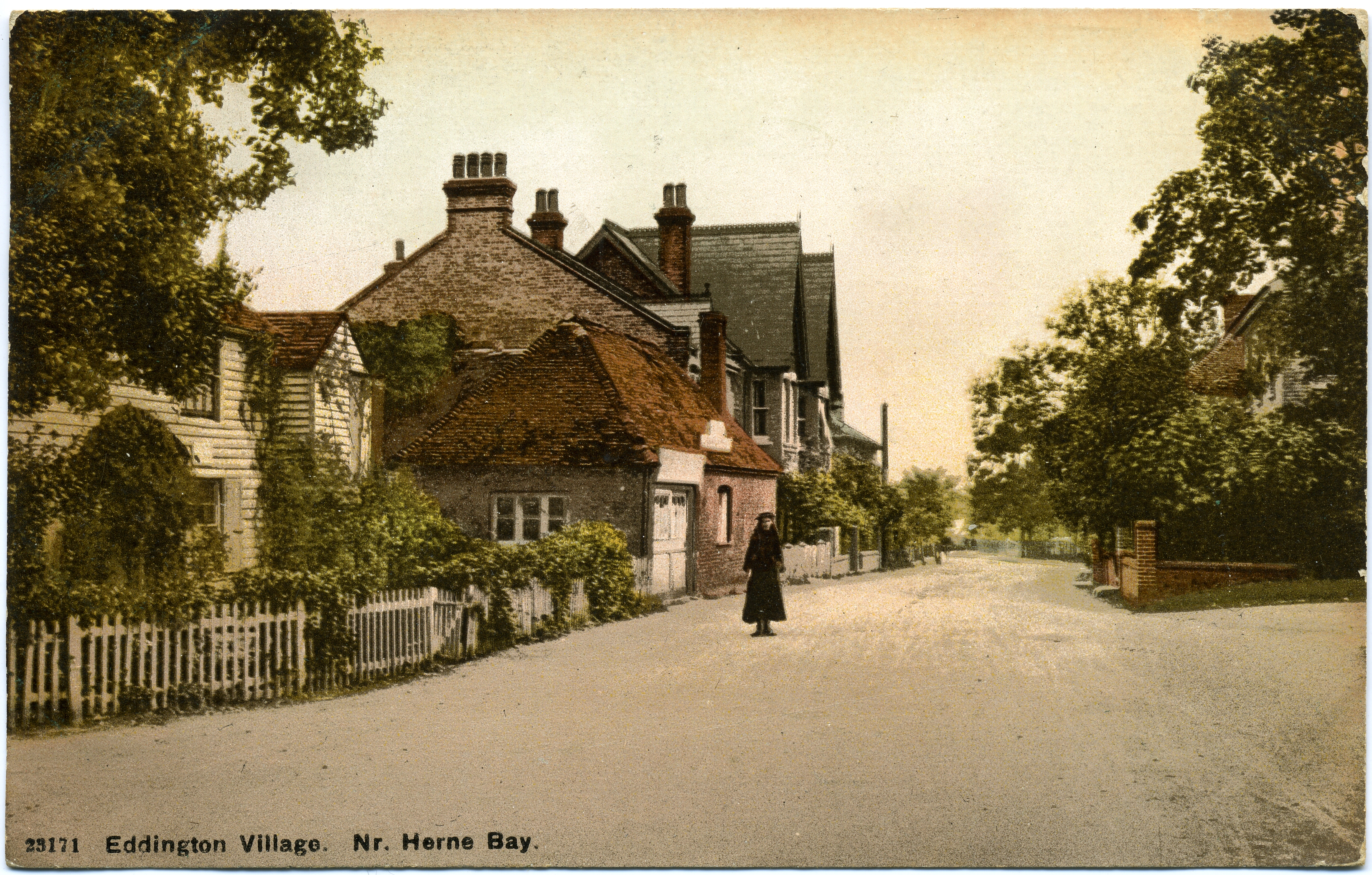 Tinted postcard of Eddington, Herne Bay, Kent, England. Postmarked "Herne Bay, Au 10, 08". The picture shows the original village or hamlet long before the area became a suburb of Herne Bay. Publisher: Photochrom Co. Ltd London. Most of the buildings in the photo still exist. The site is on the east side of the Canterbury Road (A299) looking north, just north of Priory House at the southern end of Eddington. Points of interest: The house in the foreground is in the Kentish vernacular style with limewashed weatherboarding, but the taller houses are late Victorian. There is no footpath. The orange-red roofs of the buildings in the foreground are pan-tiled. Among the green-tinted bushes just above the white picket fence of the weatherboarded house, there is possibly a figure in the garden which has been obliterated by the green added colouring. It is just to the left of the open white picket gate. The dark figure in the middle of the road may have been sketched in. The low building with double doors and tall chimney in the centre of the picture may have been the forge which is recorded at this crossroads. Also recorded here is the guidepost or signpost which can just be seen on the left side of the road in the distance. Standing out in the distance on the left side of the road is a tall chimney, which may be the sewer vent column which is a listed building.